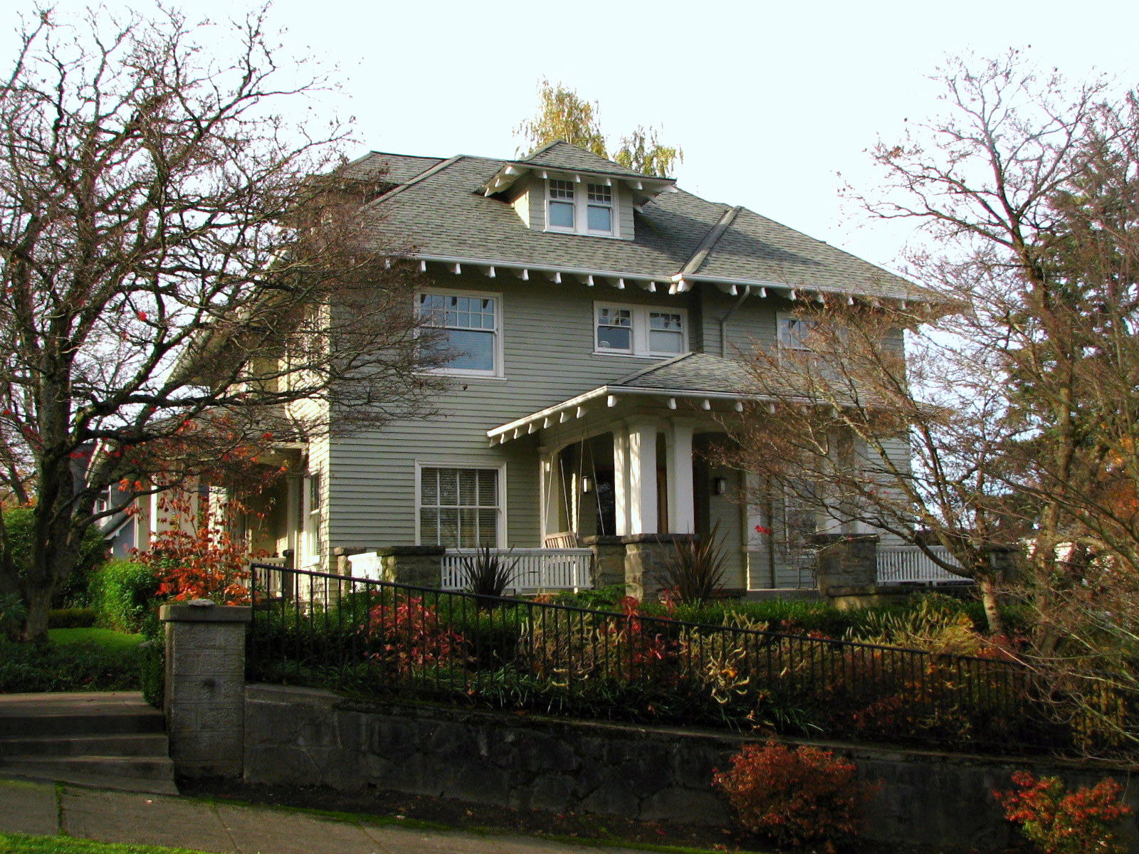 The historic Moses and Ida Kline House, located at 2233 Southwest 18th Avenue in Portland, Oregon, United States, is listed on the US National Register of Historic Places.